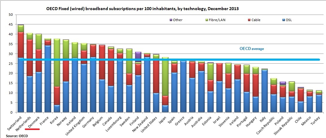 OECD contries fixed (wired) broadband subscriptions per 100 inhabitants, by technology, December 2013. Denmark underlined